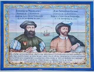 Ceramic azulejo panel in commemoration of the first world circumnavigation, the Magellan-Elcano's expedition, that set sail from Sanlucar de Barrameda, Cádiz, Spain, on September 20, 1519. The first voyage around the world finished in the same town, on September 6, 1522.